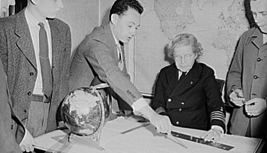 Capt. Mary Parker Converse, the first woman ever commissioned by the U.S. Merchant Marine, teaches V-7 personnel (candidates for U.S. Navy ensign commission) how to use a compass, gyroscope and sextant in 1941.